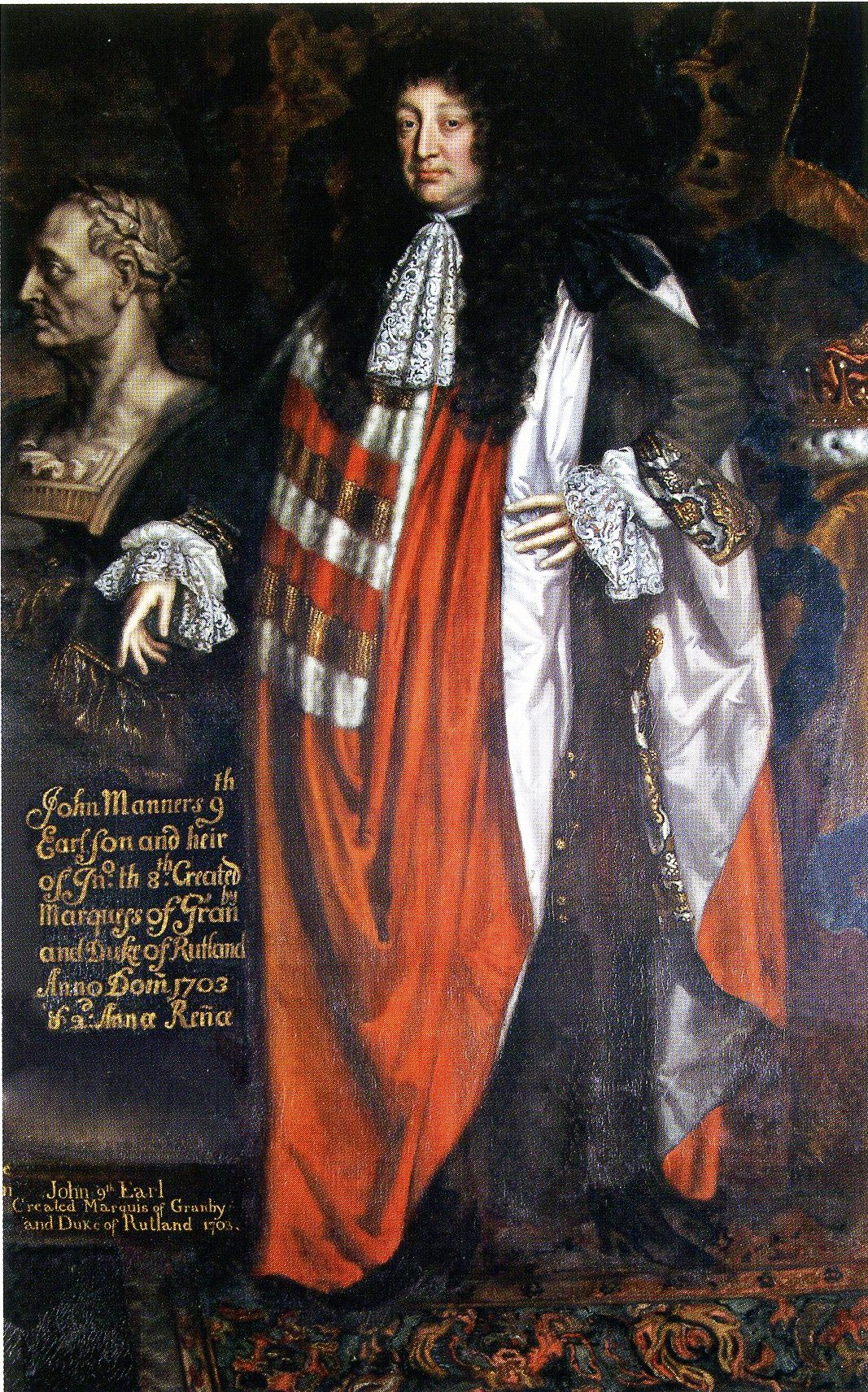 John Manners, the 9th Earl of Rutland and the 1st Duke of Rutland